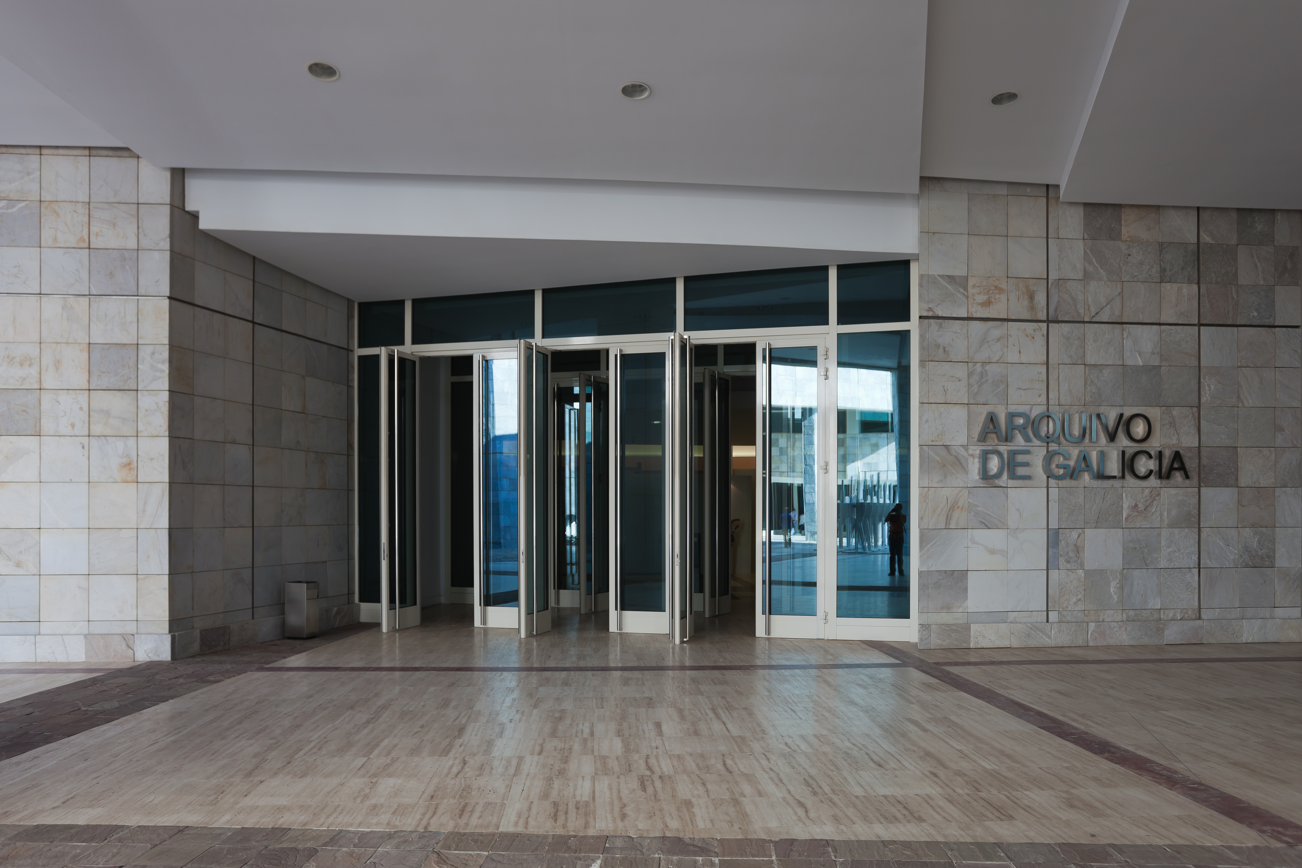 Archive of Galicia. City of the Culture of Galicia. Santiago de Compostela. Peter Eisenman